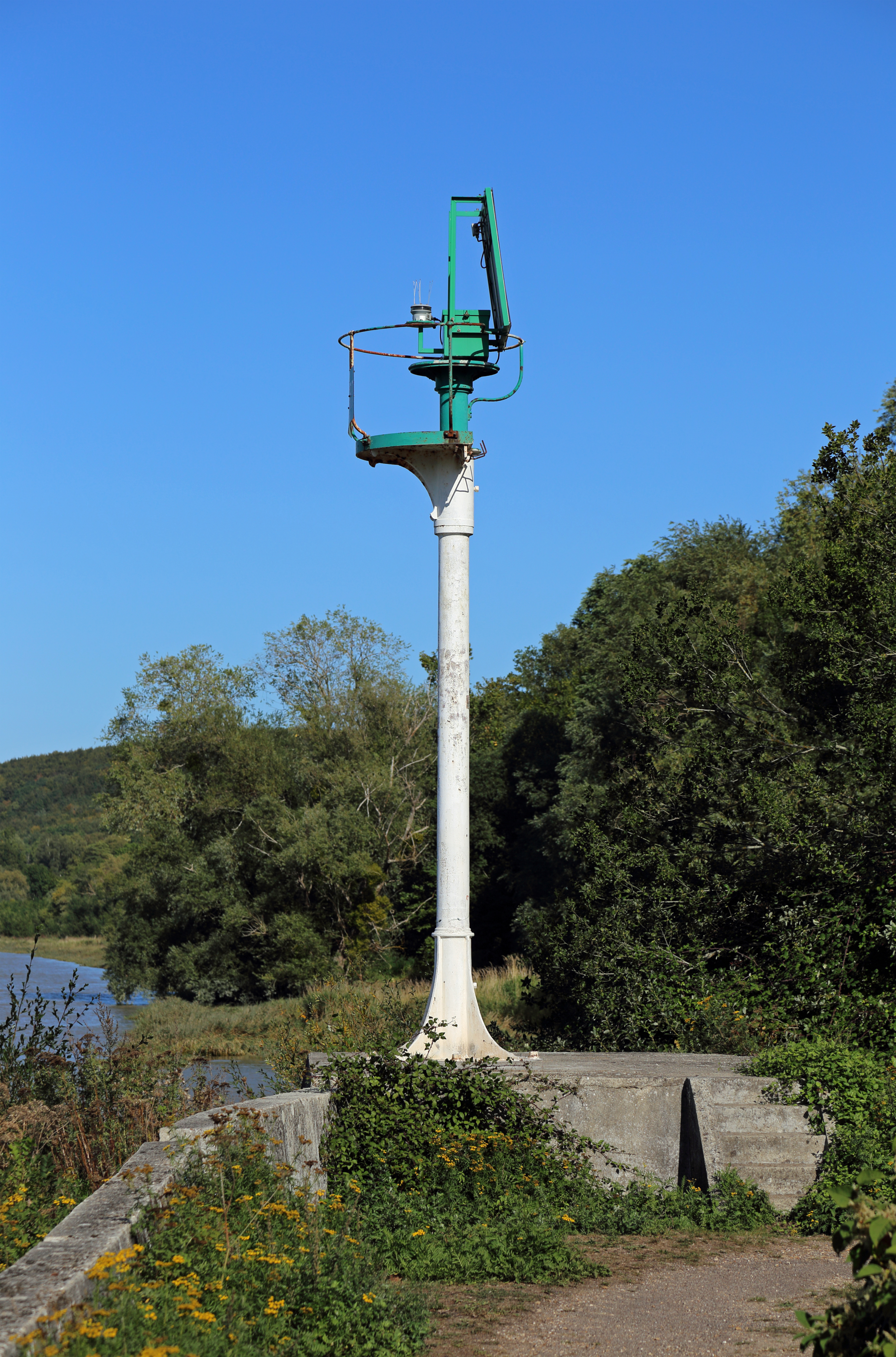 Vieux-Port (Eure department, France): lighted navigational beacon along the Seine river